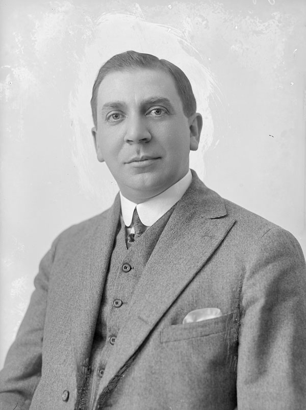 Archibald Jacob Freiman, a noted Ottawa businessman and merchant, and a leader of the Jewish community in Canada between the two World Wars.